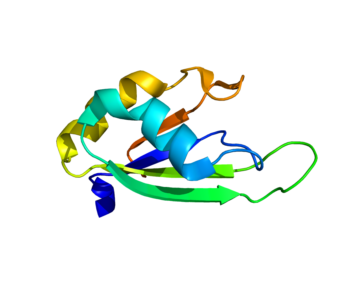 Structure of protein PABPN1.Based on PyMOL rendering of PDB 3B4D.